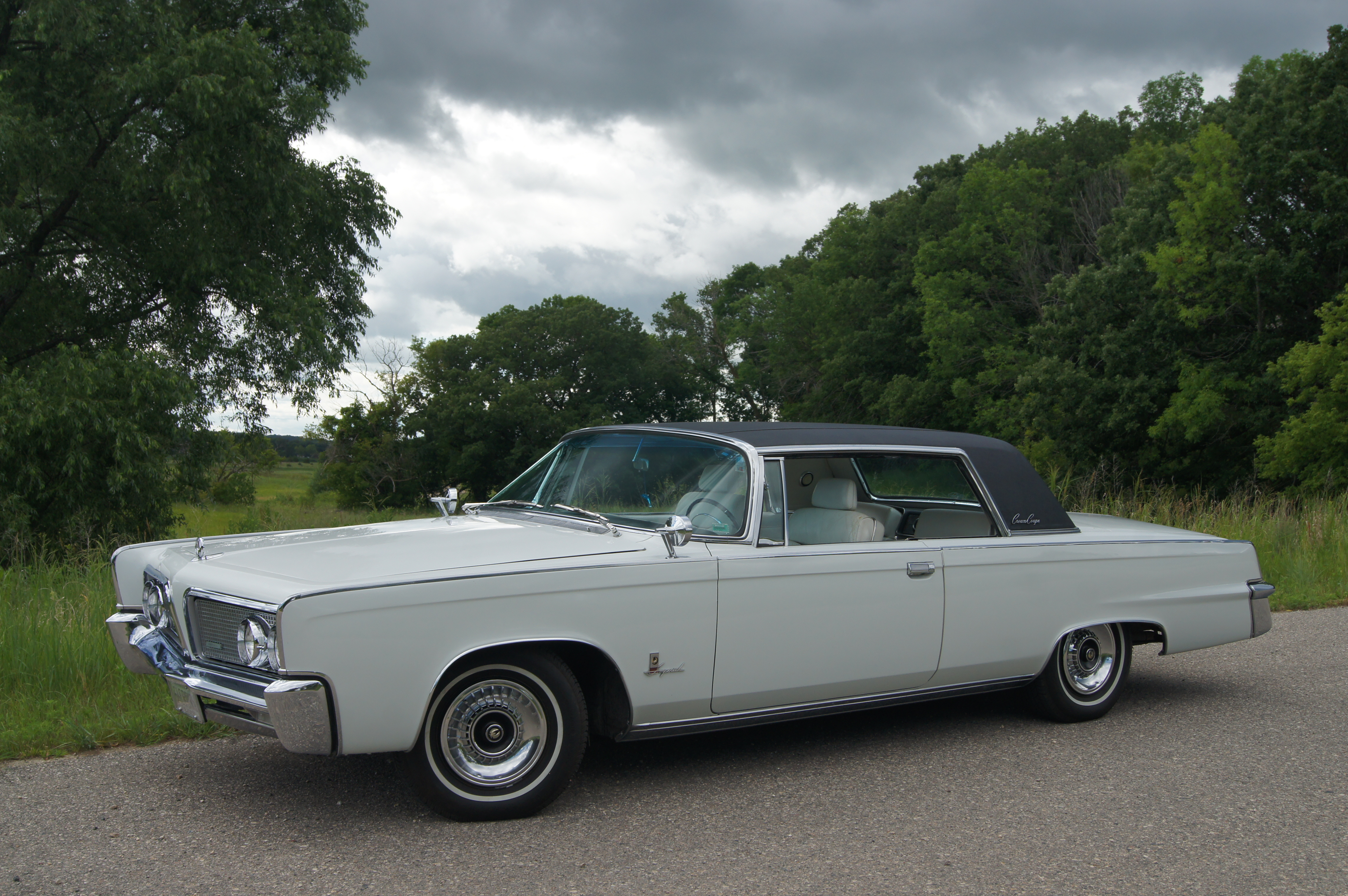 Thousands more of my car pictures available by clicking link below: Check out the Imperial Group by clicking on this link